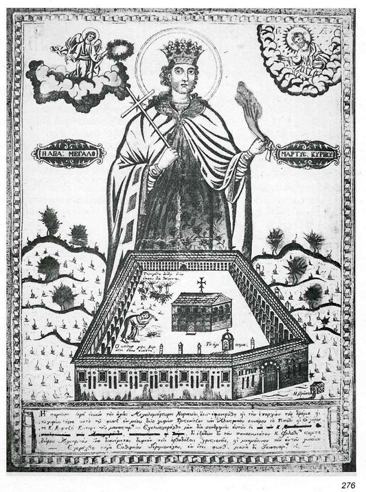 μοναστήρι της Αγίας Κυριακής